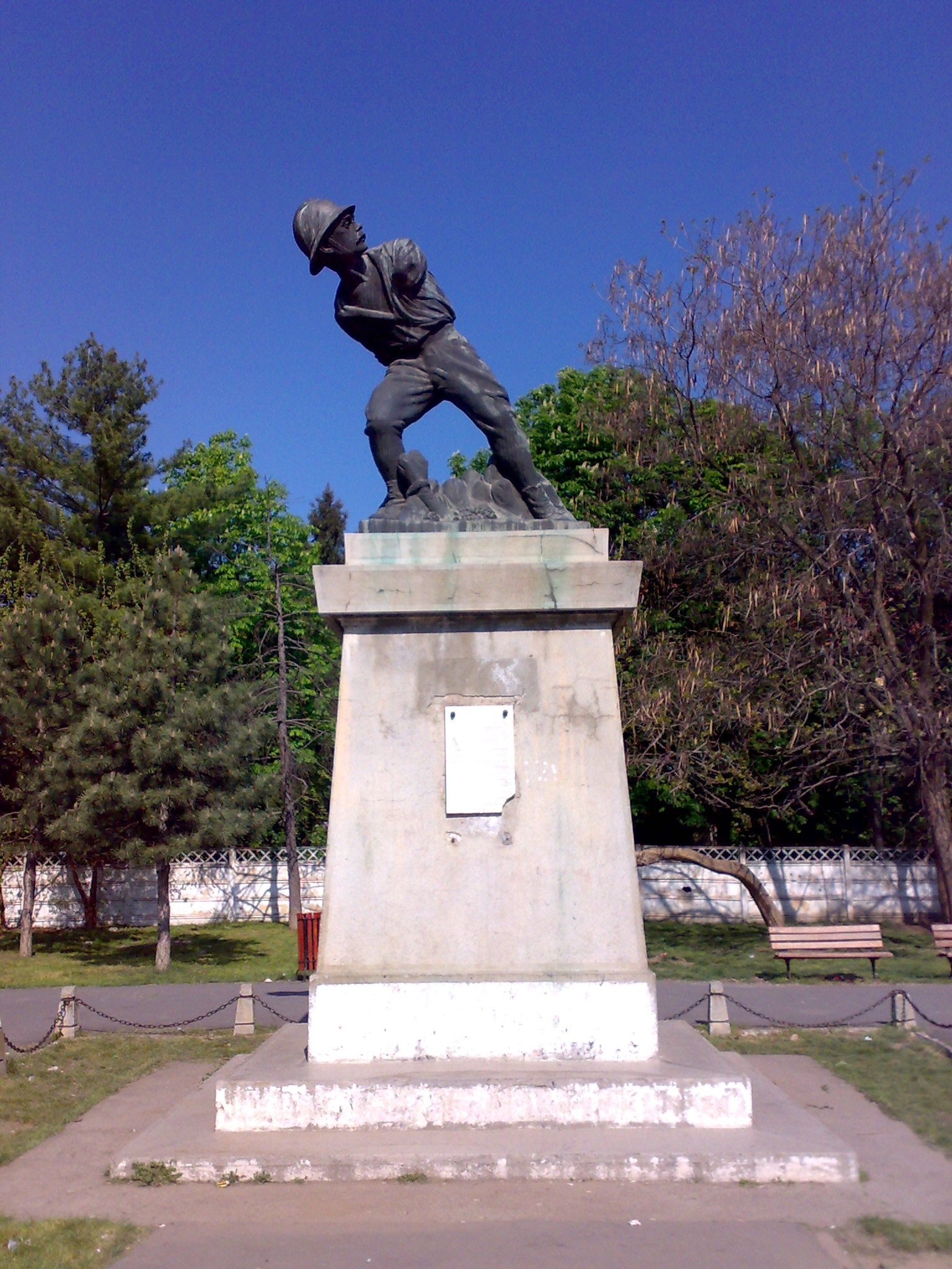 Corporal Constantin Musat Statue from Braila , Romania